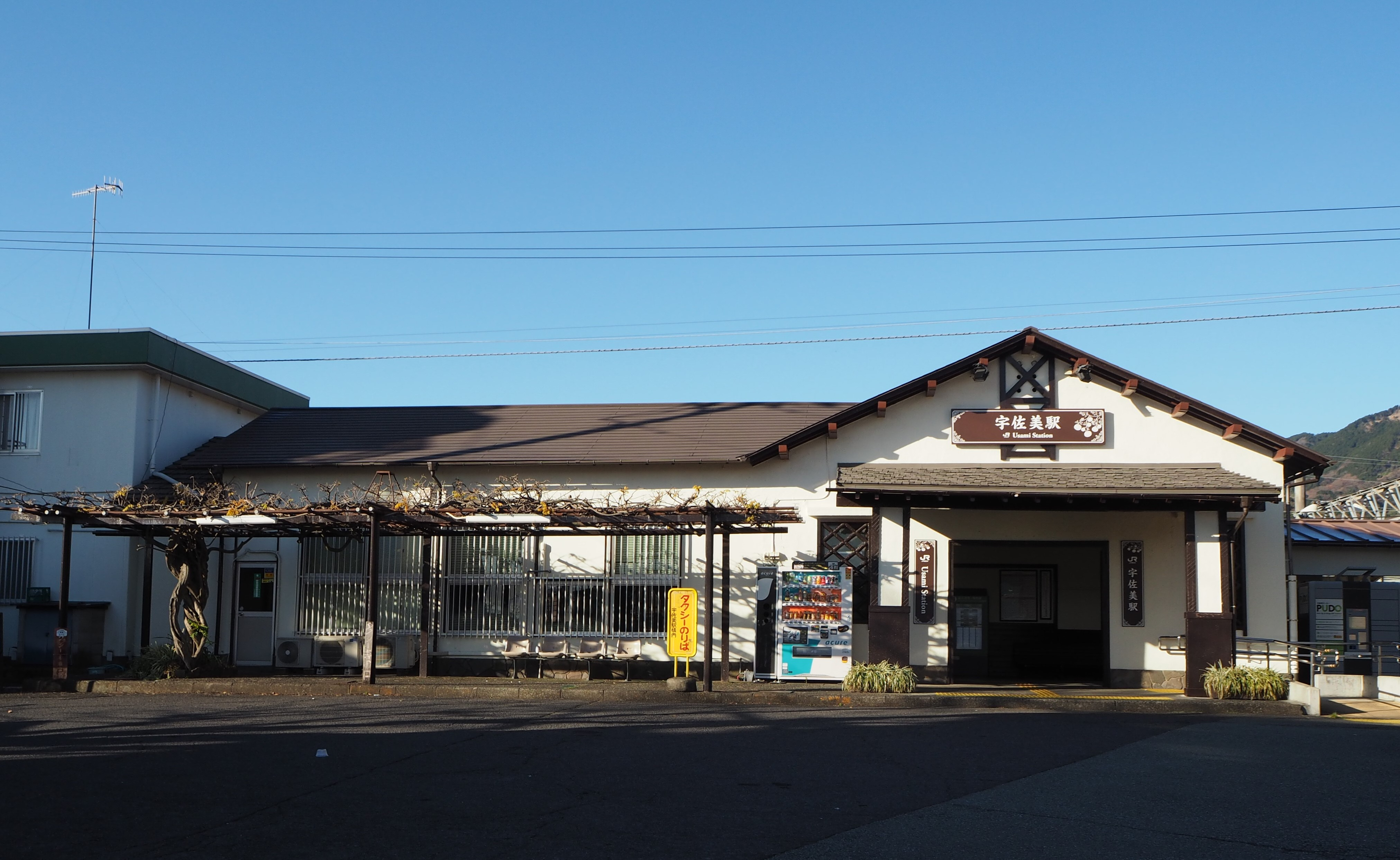 Usami Station Olympus E-M10